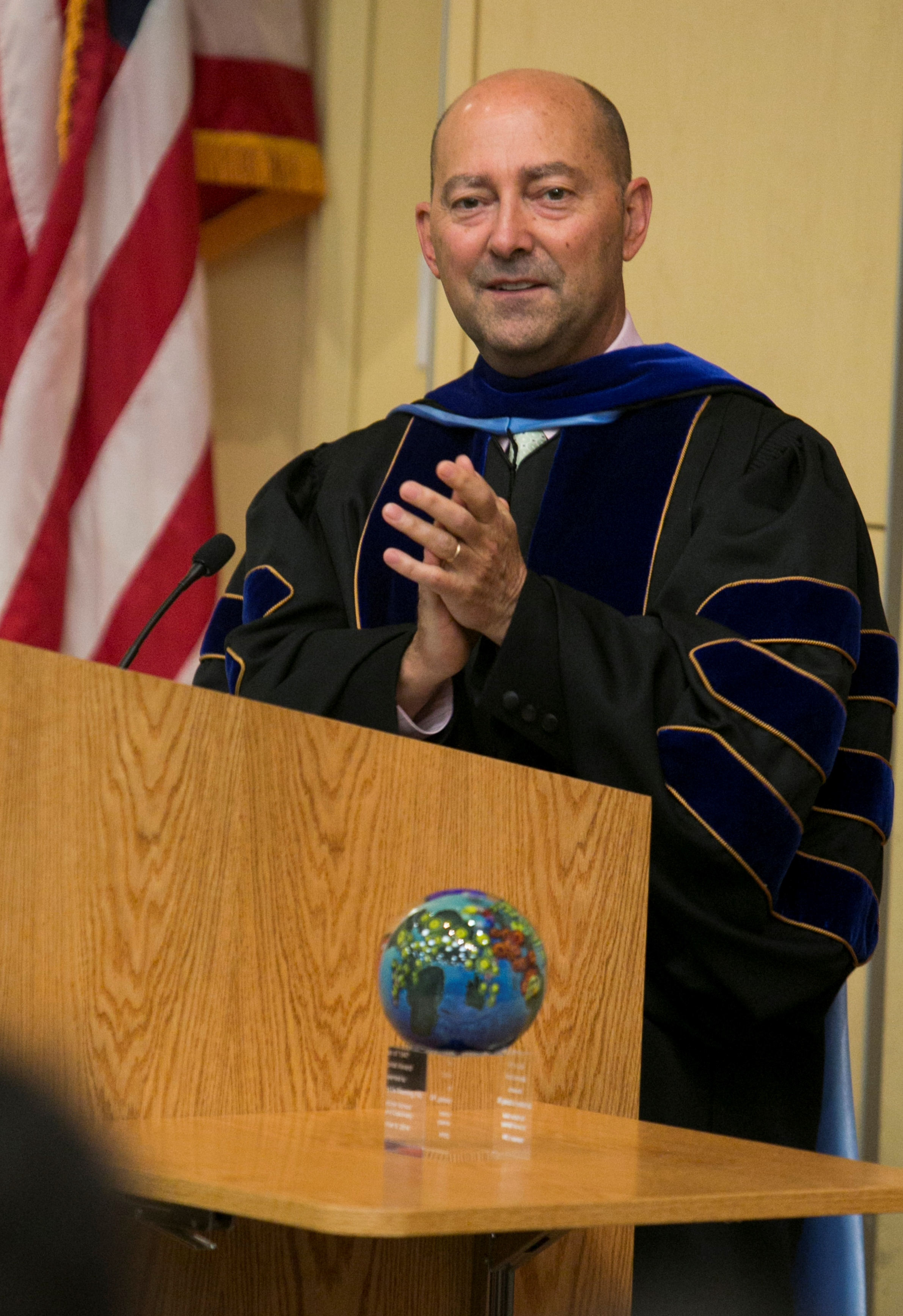 Dean James Stavridis at 2014 Fletcher School of Law & Diplomacy convocation.